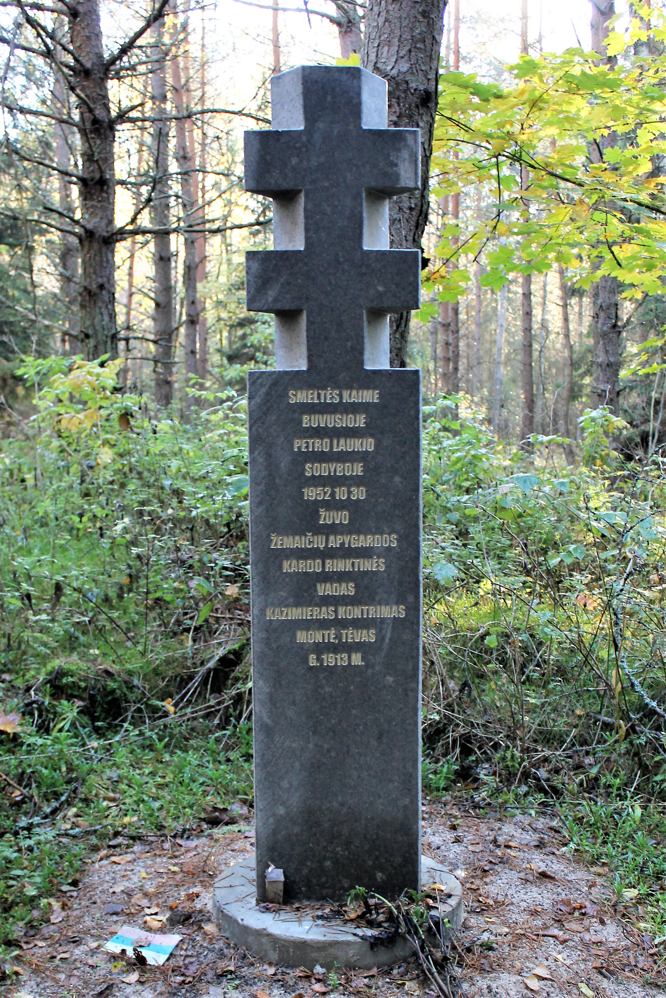 The disappearance of the partisan commander Kazimieras Kontrimas in the village of Kumpikai, Kretinga district municipality, LithuaniaLietuvių: Partizanų vado Kazimiero Kontrimo žuvimo vieta Kumpikų kaime, Kretingos rajono savivaldybė, Lietuva